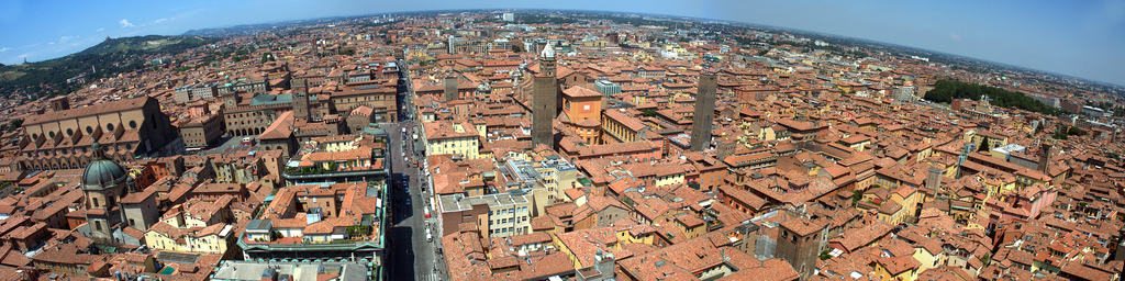 View, Bologna, Italyhome